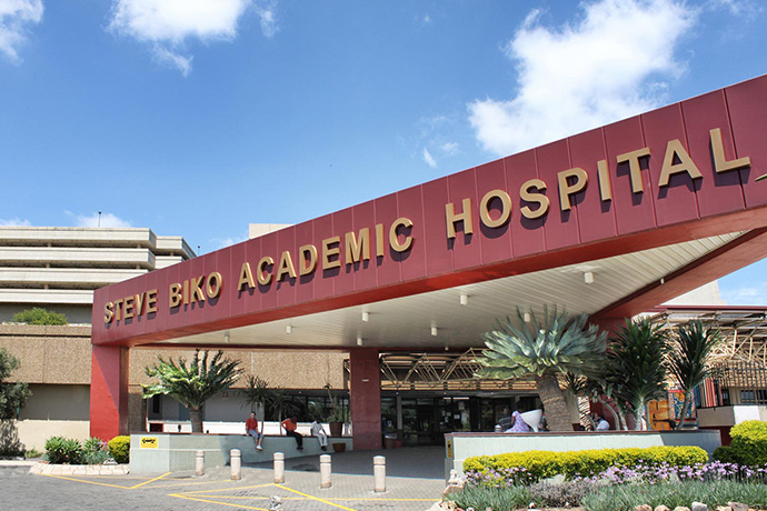 The entrance to the Steve Biko Academic Hospital in Pretoria, South Africa